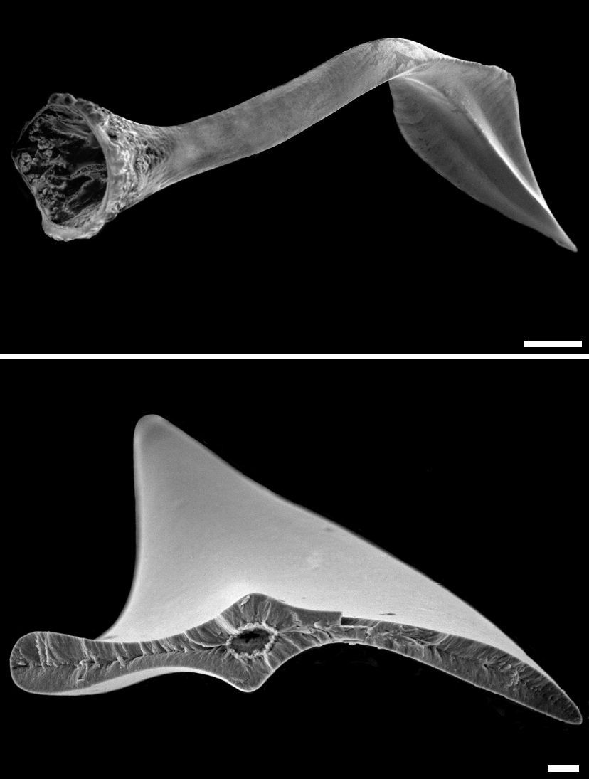 Scanning electron microscopic (SEM) images love-dart of Leptaxis erubescens. Upper image is love dart from side view while the measure is 500 μm (0.5 mm). Lower image is cross-section while the measure is 50 μm.